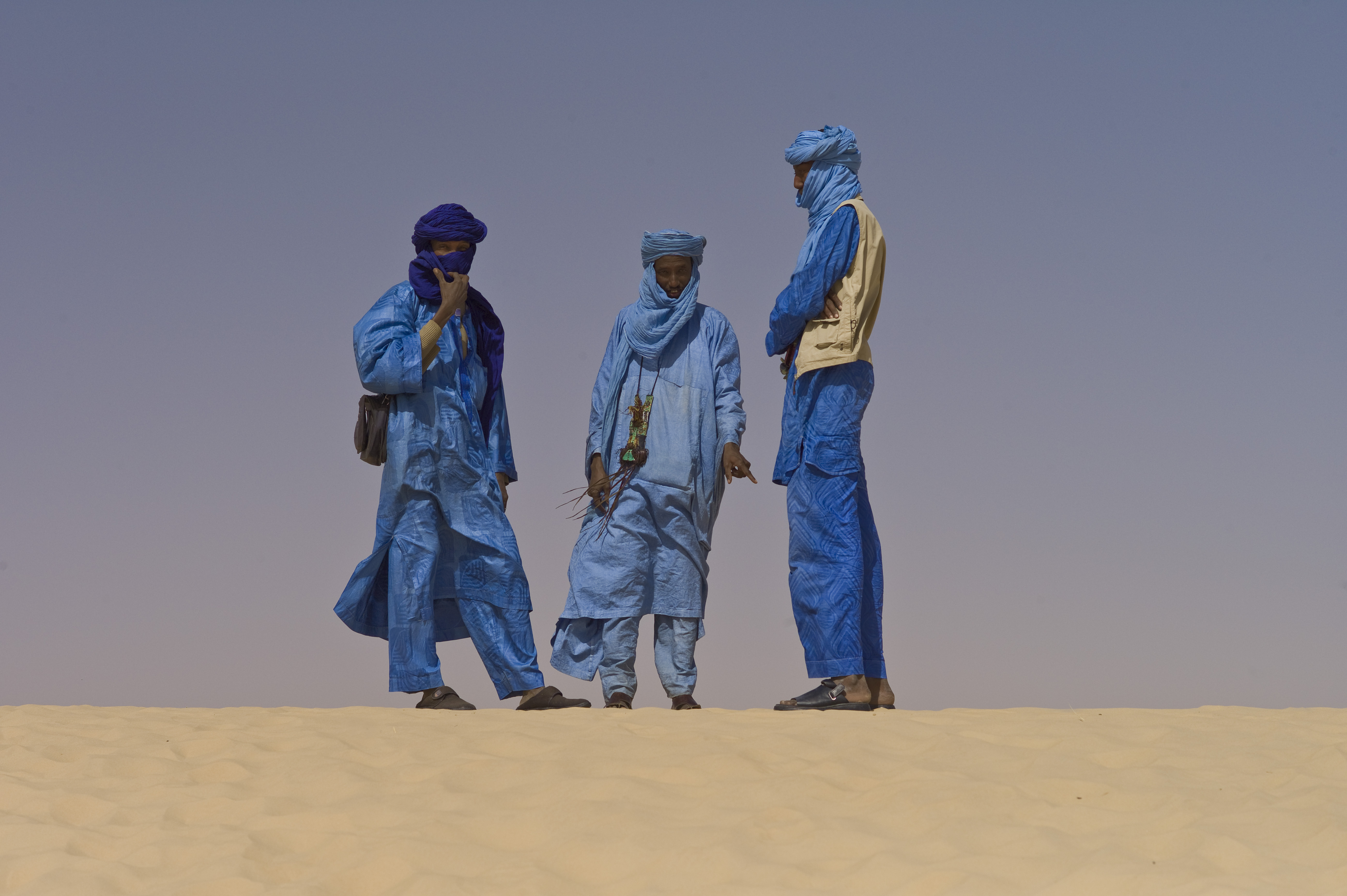 Touaregs at the Festival au Desert near Timbuktu, Mali 2012